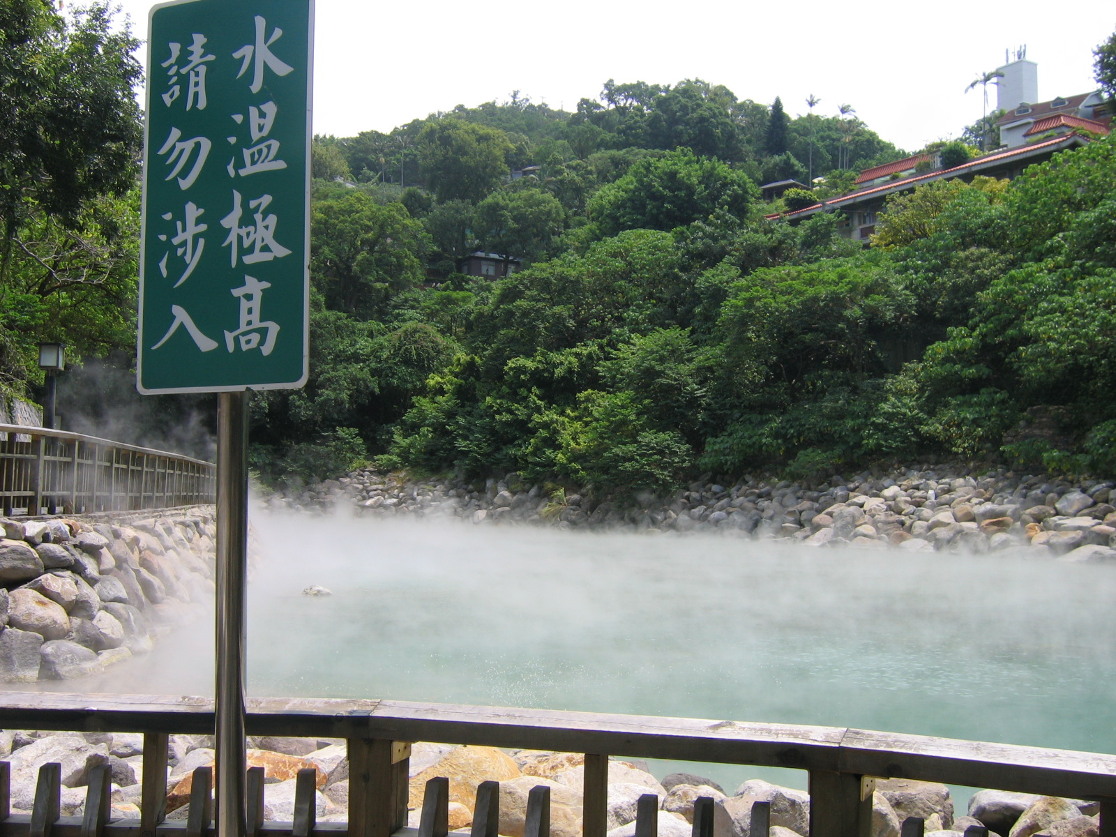 "Hot water, do not enter" warning sign of Beitou Thermal Valley.中文（台灣）: 北投地熱谷「水溫極高，請勿涉入」警告牌。